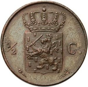 1/2 cent, Netherlands (Halfje / Half-cent coin (Netherlands)